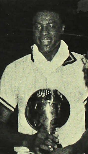 Photograph of Cazzie Russell accepts trophy as the Big Ten's Most Valuable Player